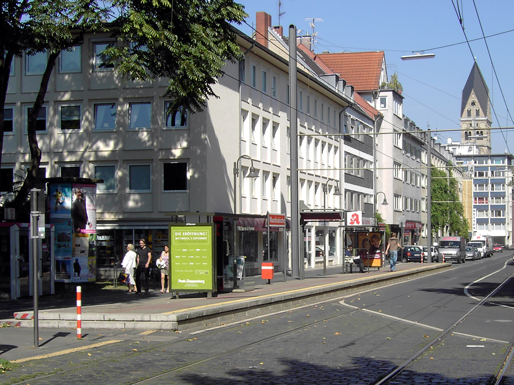 Platform for low-floor trams in Köln(Cologne), at Mauritiuskirche Stadtbahn stop